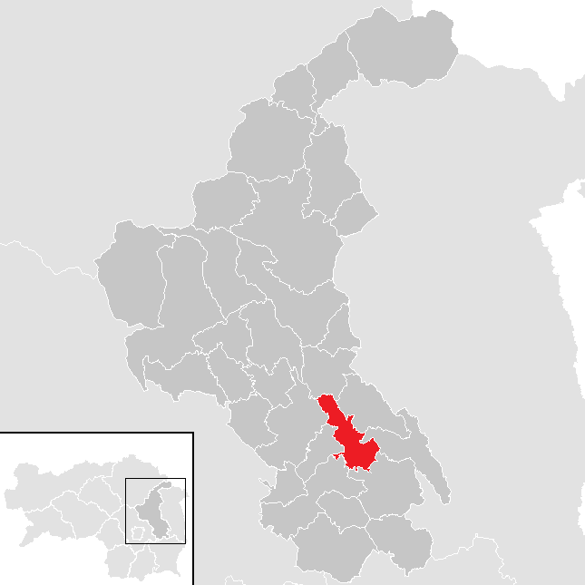 district Weiz